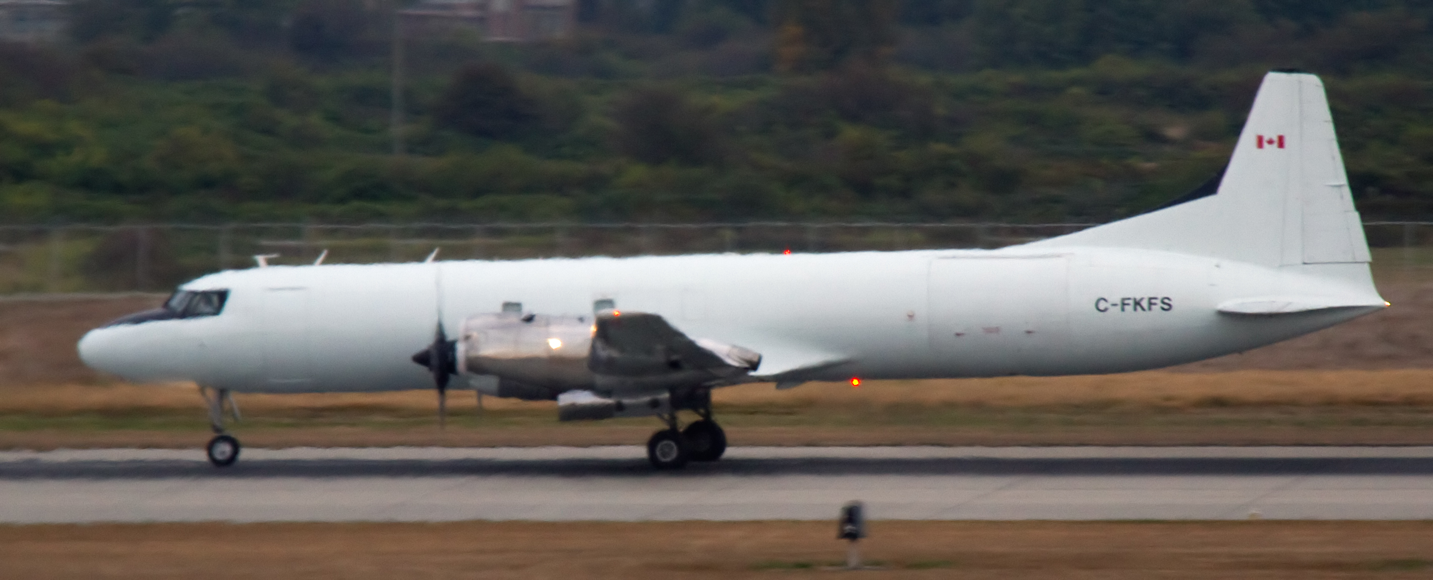 Kelowna Flightcraft Air Charter Convair 5800 C-FKFS